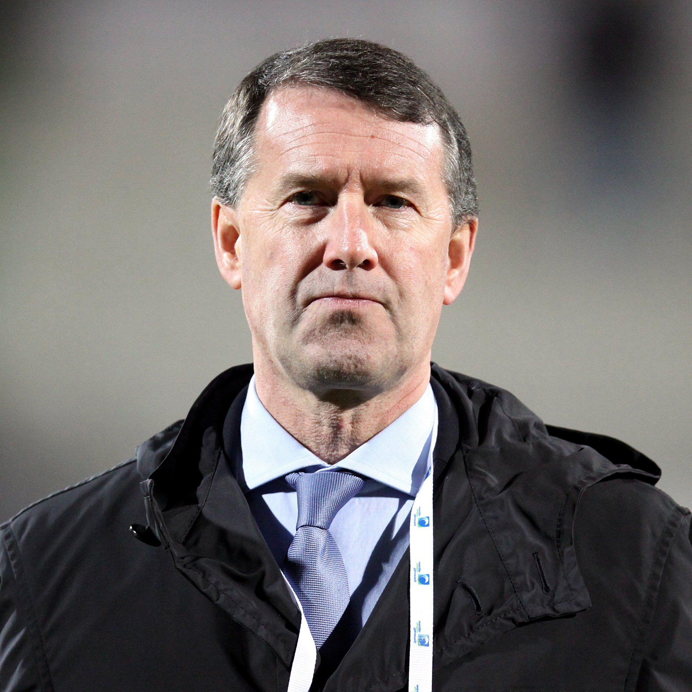 2017 UEFA European Under-21 Championship qualification – Austria U-21 (red shirts) vs. :en:Finland national under-21 football team |Finnland U-21 (blue shirts) 2-0 (0-0) – 2015-11-13 in Vienna, Austria Arena – The photo shows the referee-observer Alan Freeland (SCO), a former FIFA referee.